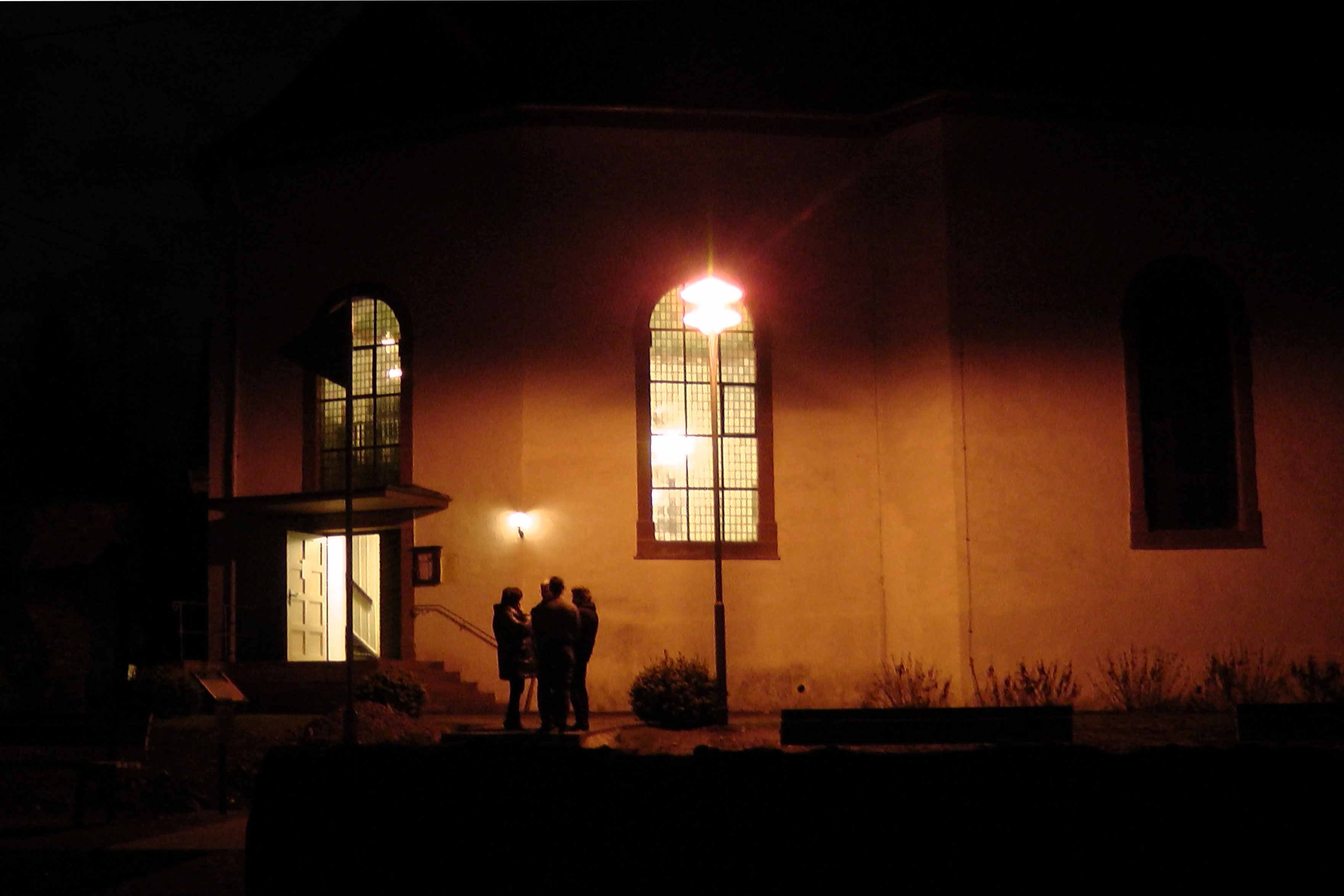 Simultaneum Brauneberg (Germany) by night - perotestant part